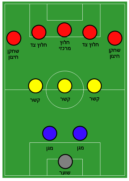 Football Formation - Pyramid